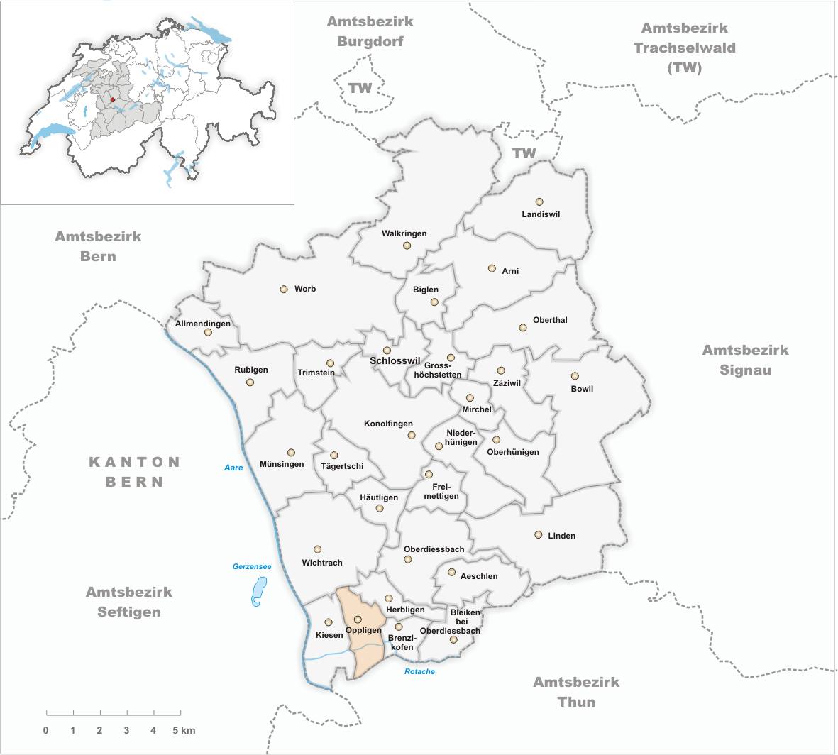 Municipality Oppligen